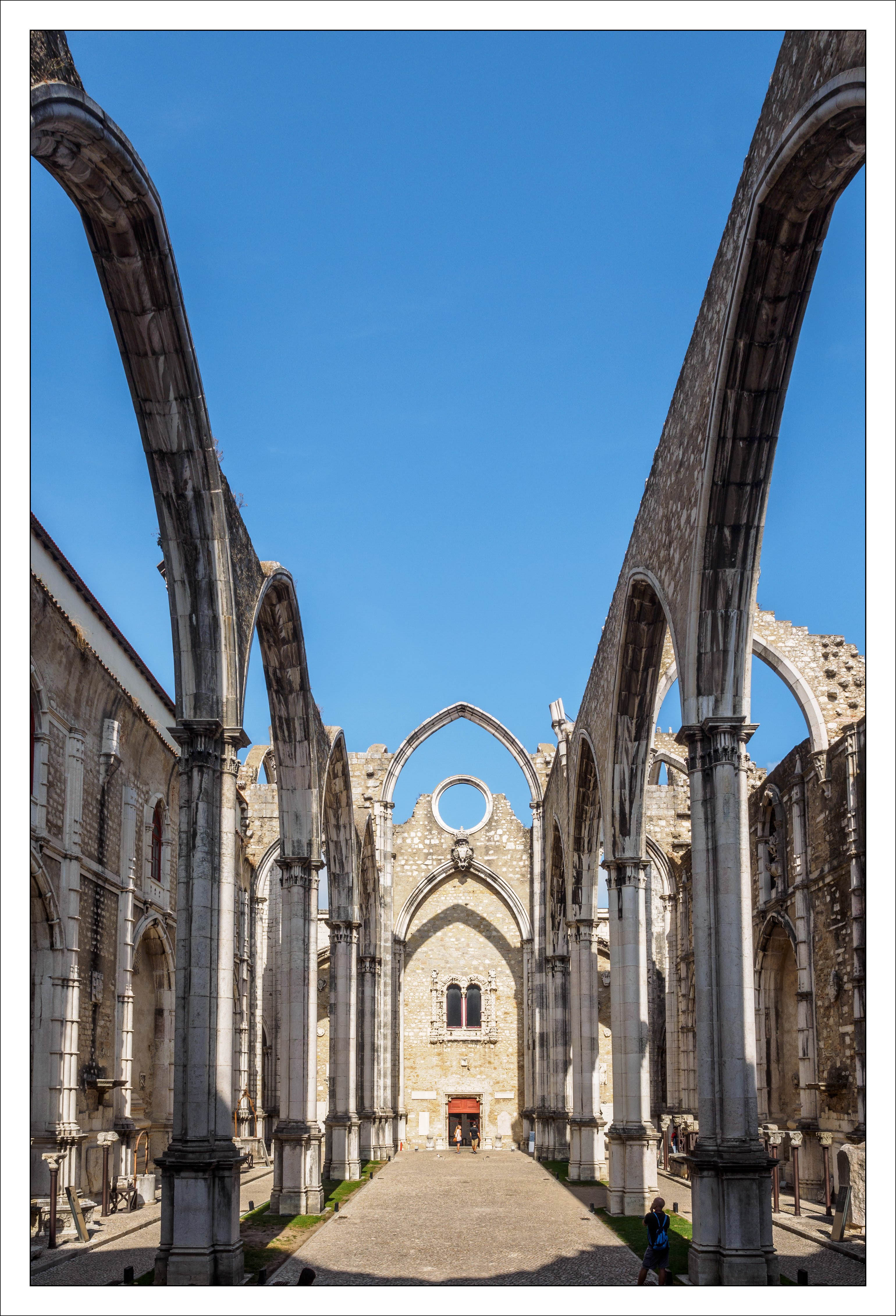 Andreas Manessinger, , Creative Commons BY-SA